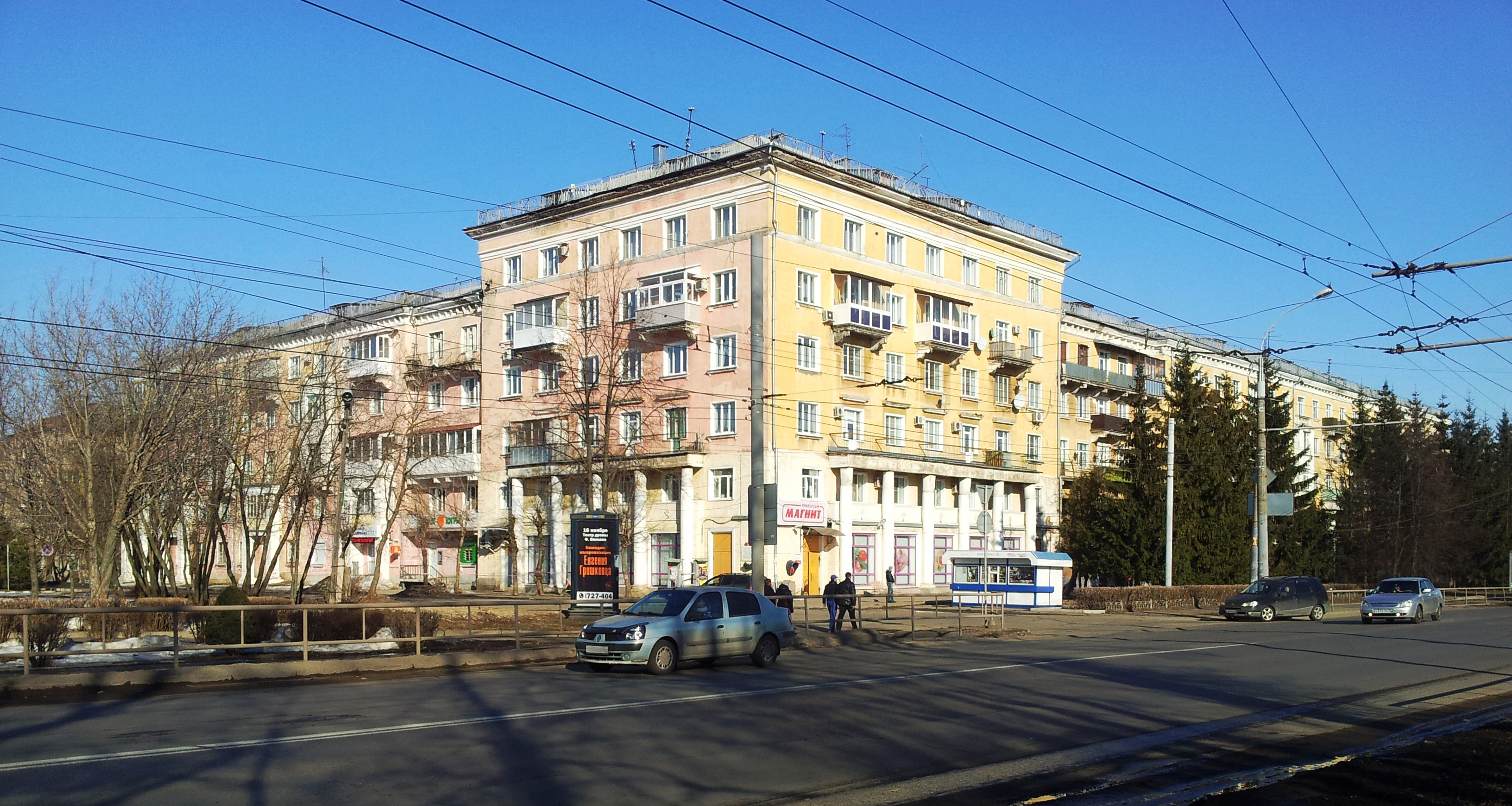 Six-storey stalinist house on Lenin avenue,146 in Rybinsk, Russia